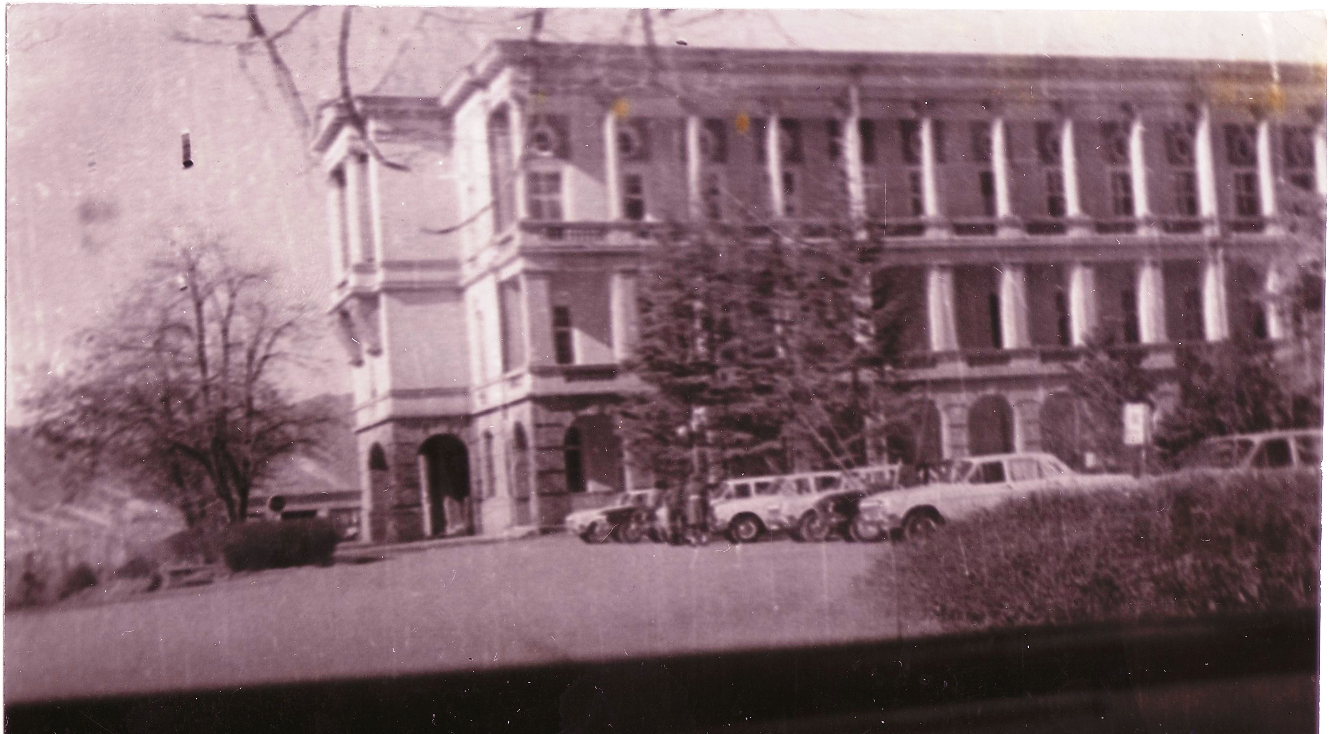 GAZ-24 "Volga" Soviet-made automobiles parked near Darul-Aman palace that was used for GHQ of the Democratic Republic of Afghanistan, photo was made from a moving car